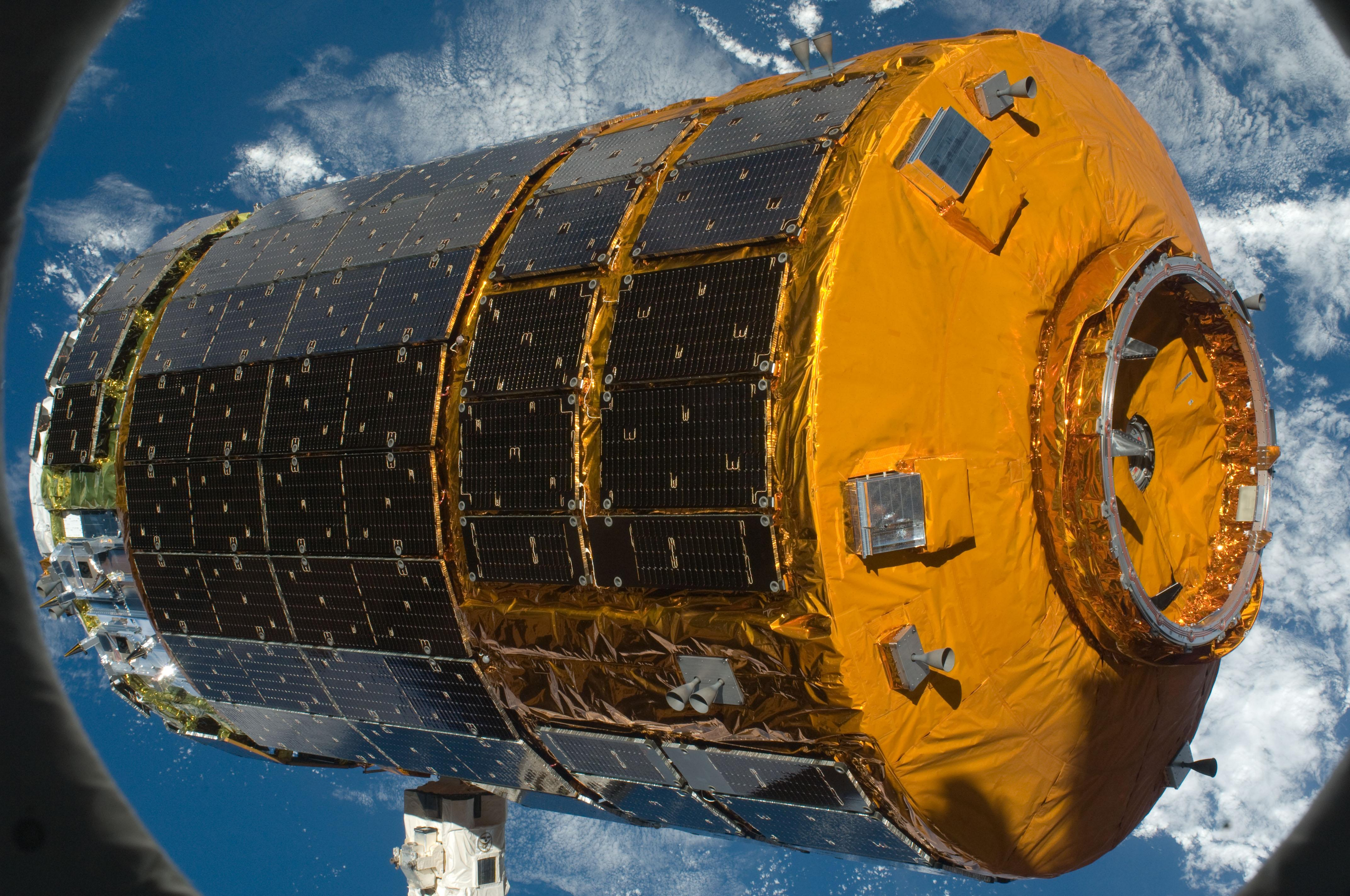 A close-up view of the unpiloted Japanese H-II Transfer Vehicle (HTV) in the grasp of the International Space Station's robotic Canadarm2. NASA astronaut Nicole Stott, Canadian Space Agency astronaut Robert Thirsk and European Space Agency astronaut Frank De Winne, all Expedition 20 flight engineers, used the station's robotic arm to grab the cargo craft and attach it to the Earth-facing port of the Harmony node. The attachment was completed at 5:26 (CDT) on Sept. 17, 2009.